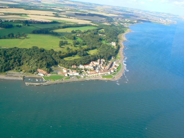 West Wemyss With Wemyss Castle visible among the trees behind the village.